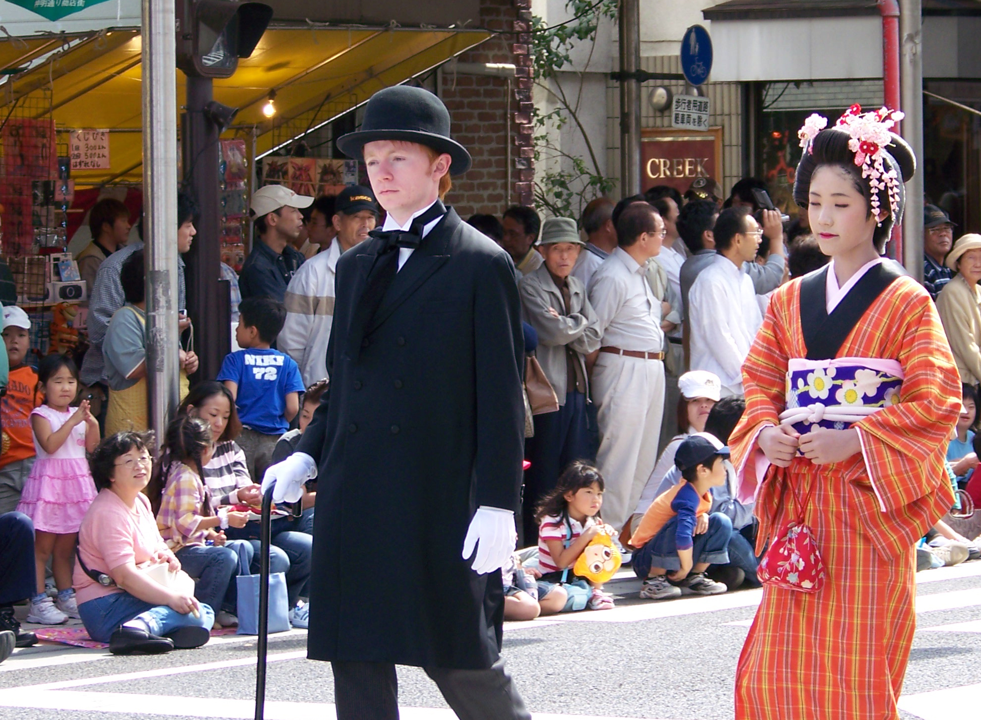 Man playing German weapons dealer Henry Schnell in the 2006 Aizu Clan Parade in Aizu-Wakamatsu, Fukushima Prefecture, Japan. Photo by uploader. Taken 23 September 2006.